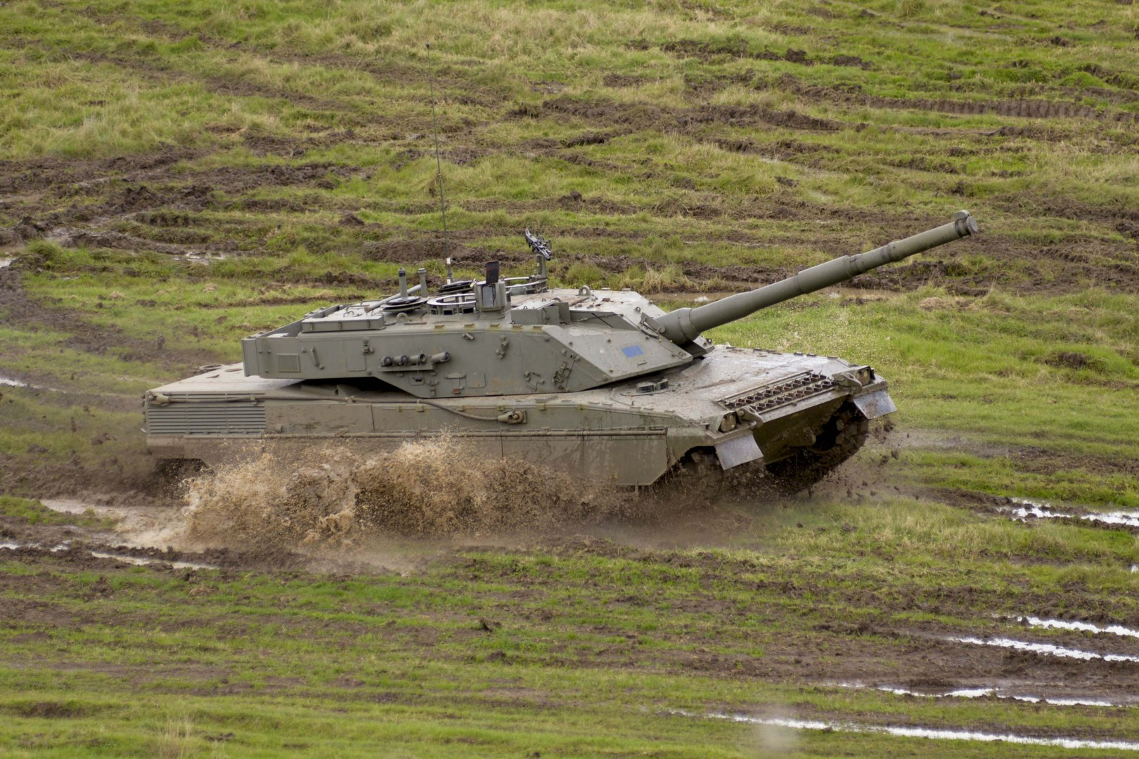 Italian Army Ariete main battle tank of the 4th Tank Regiment